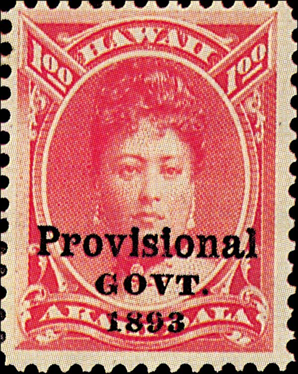 Stamp of Hawaii, $1, 1893, rose-red, Queen Emma Kaleleonalani, Scott 73.